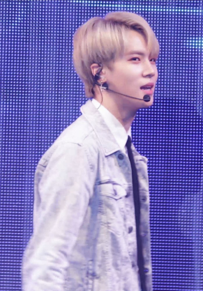 Kim Dong-han performing at the ETOOS concert on 22 Feb 2018